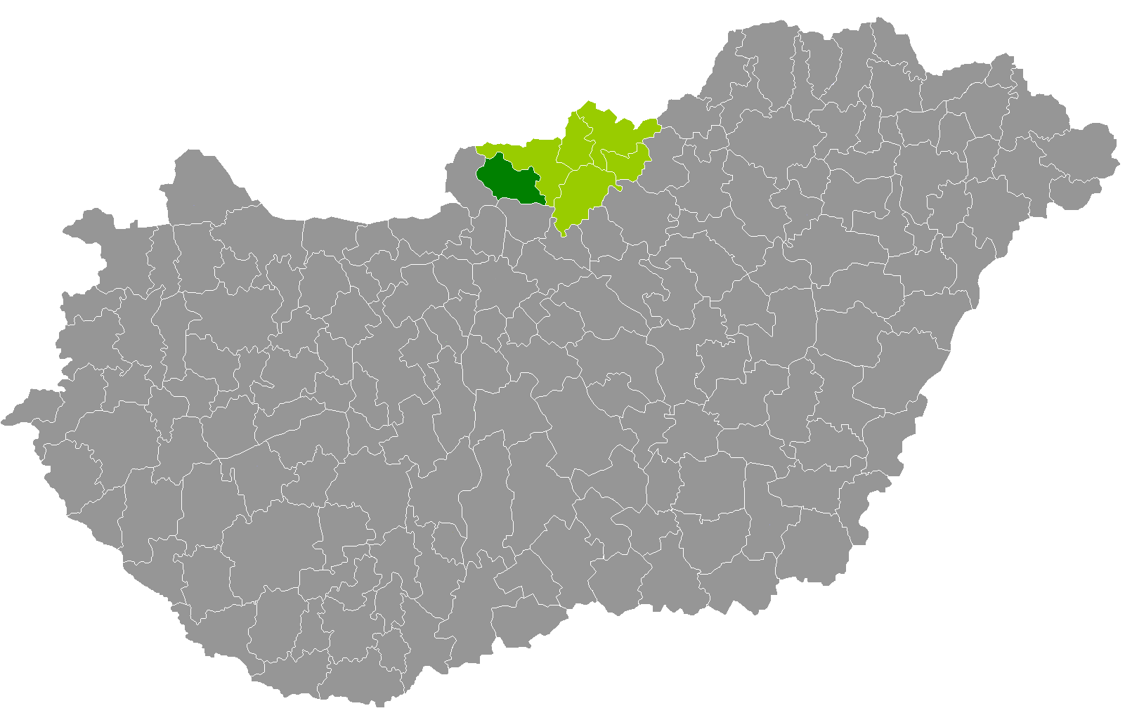 Location of Rétság District, Nógrád, Hungary